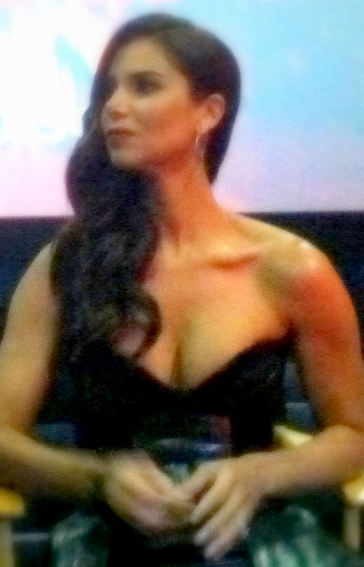 Devious Maids Screening Miami